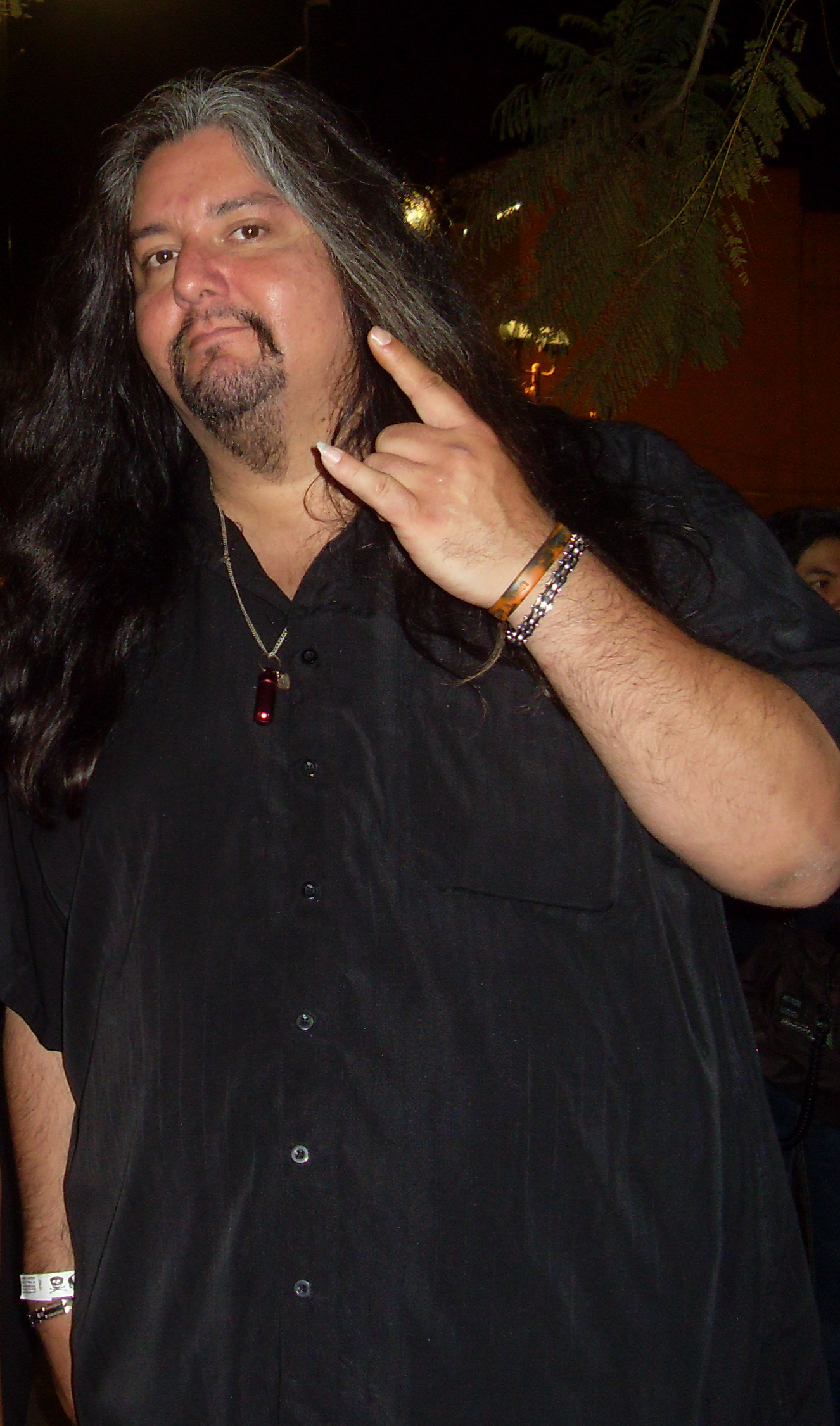 Gene Hoglan